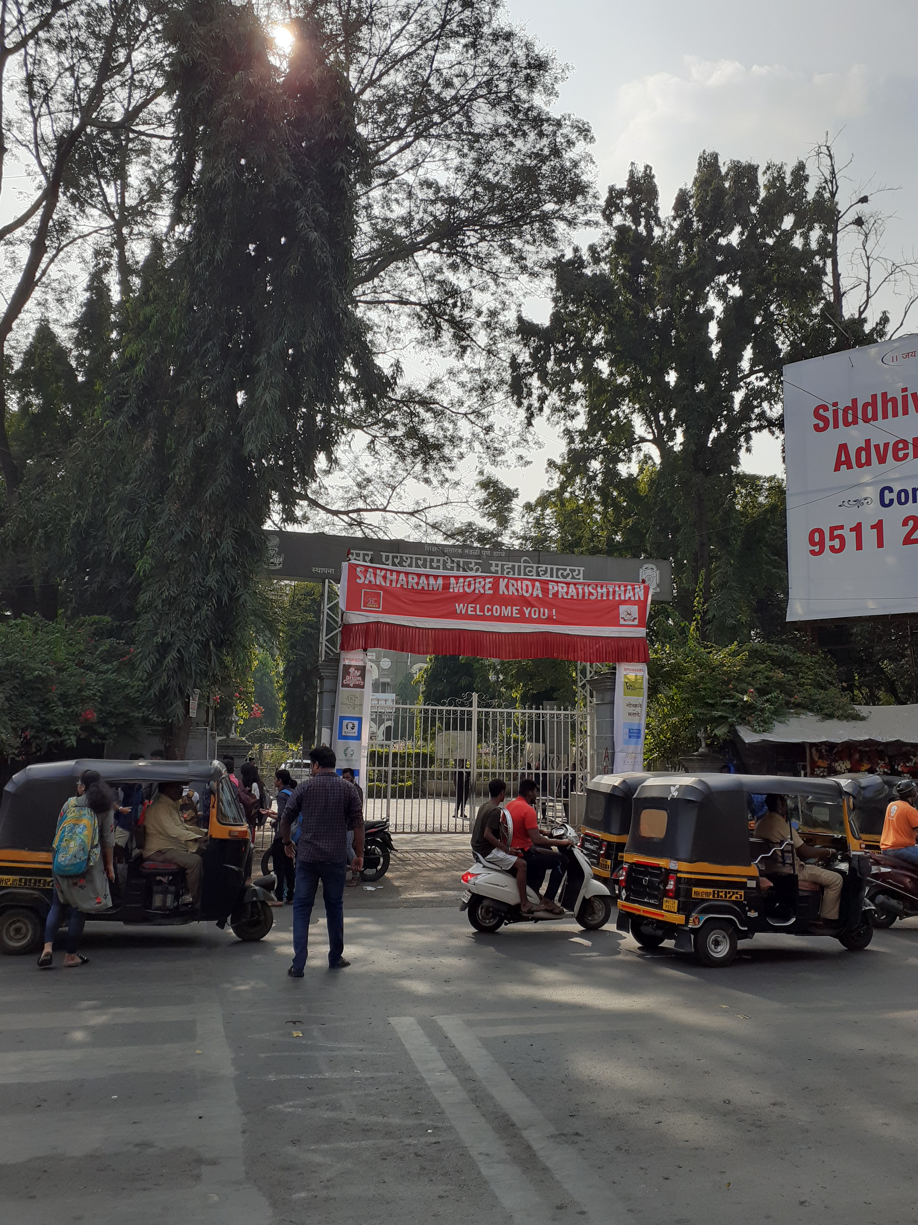 Sir Parshurambhau College, Pune